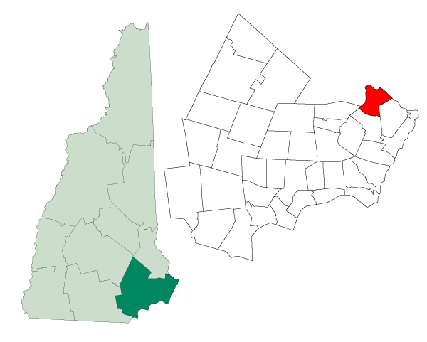 Map of a municipality in Rockingham County, New Hampshire